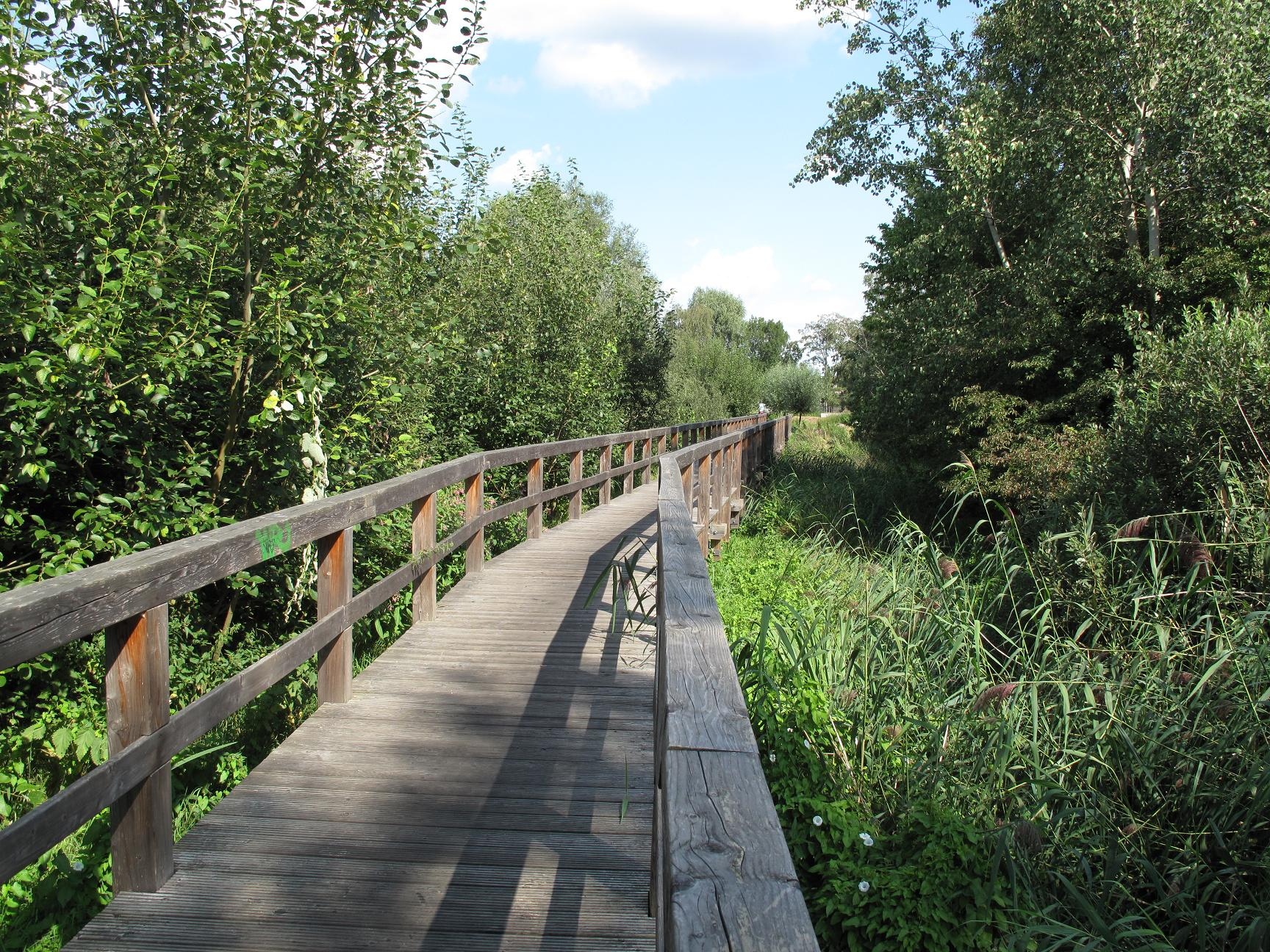 Catwalk over the Egelpfuhlgraben to the Bullengraben. The Bullengraben (german for: bullditch) is a drainage channel to the river Havel in the localities Staaken, Wilhelmstadt and Spandau in the borough Berlin-Spandau, Germany. In 2007 there was opened the green space Bullengraben (german: „Grünzug Bullengraben“) along the 4,5 kilometre long ditch.